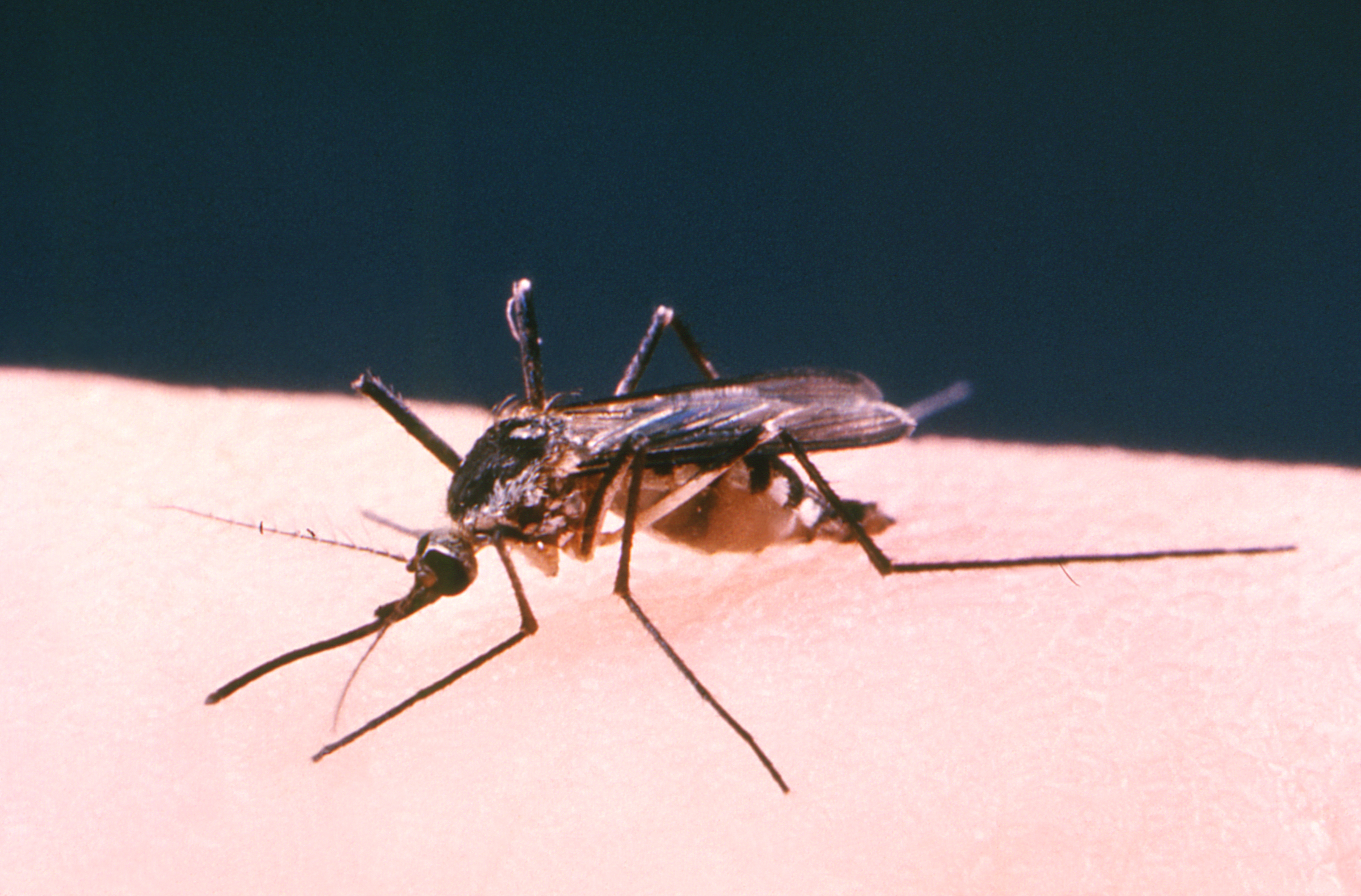 This is an Aedes triseriatus mosquito, which had lighted upon the arm of its chosen host from which it would extract its blood meal. The A. triseriatus mosquito is known as one of the many arthropodal vectors responsible for spreading the arboviral encephalitis, West Nile virus (WNV) to human beings through their bite when obtaining a blood meal. Content Providers(s): CDC/ Robert S. Craig